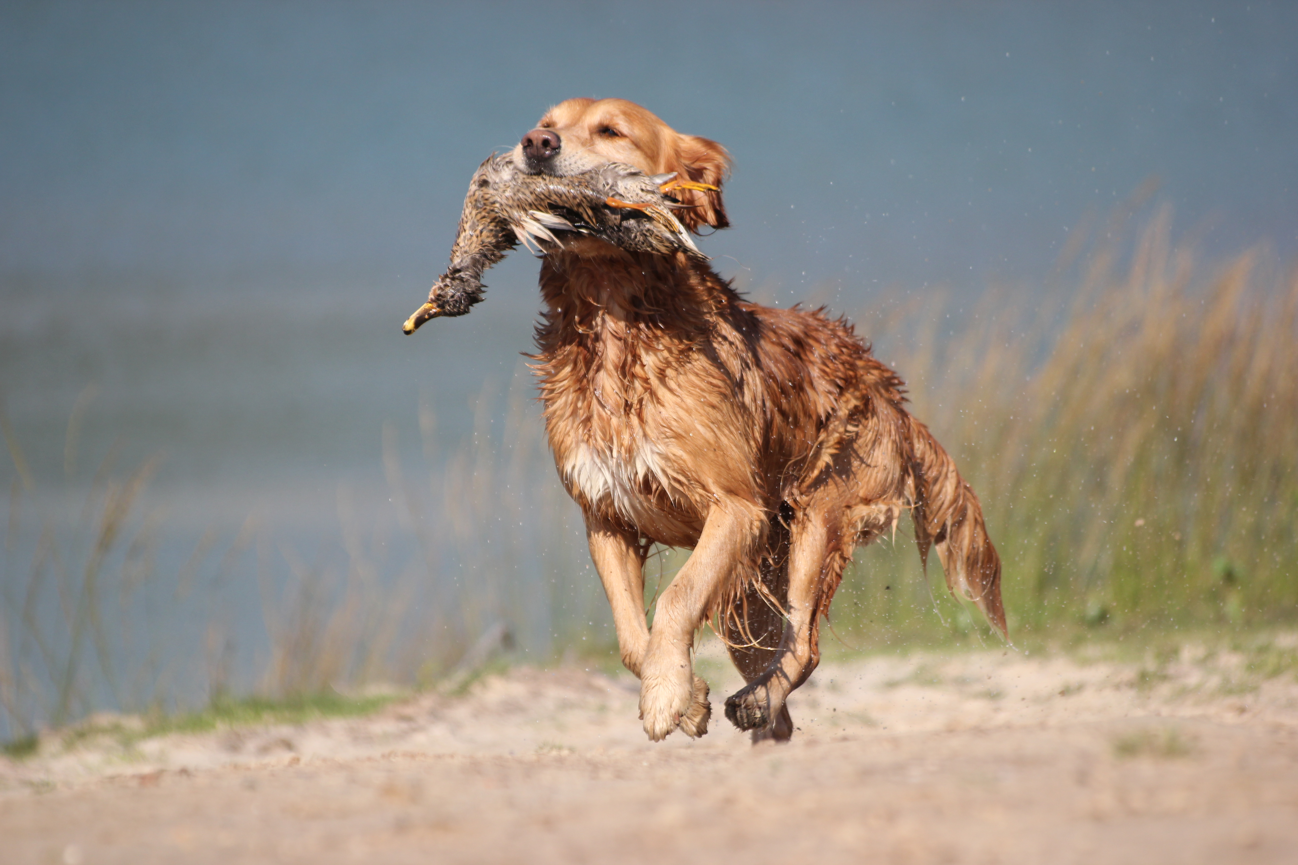 Golden retriever gun dog retrieving a duck